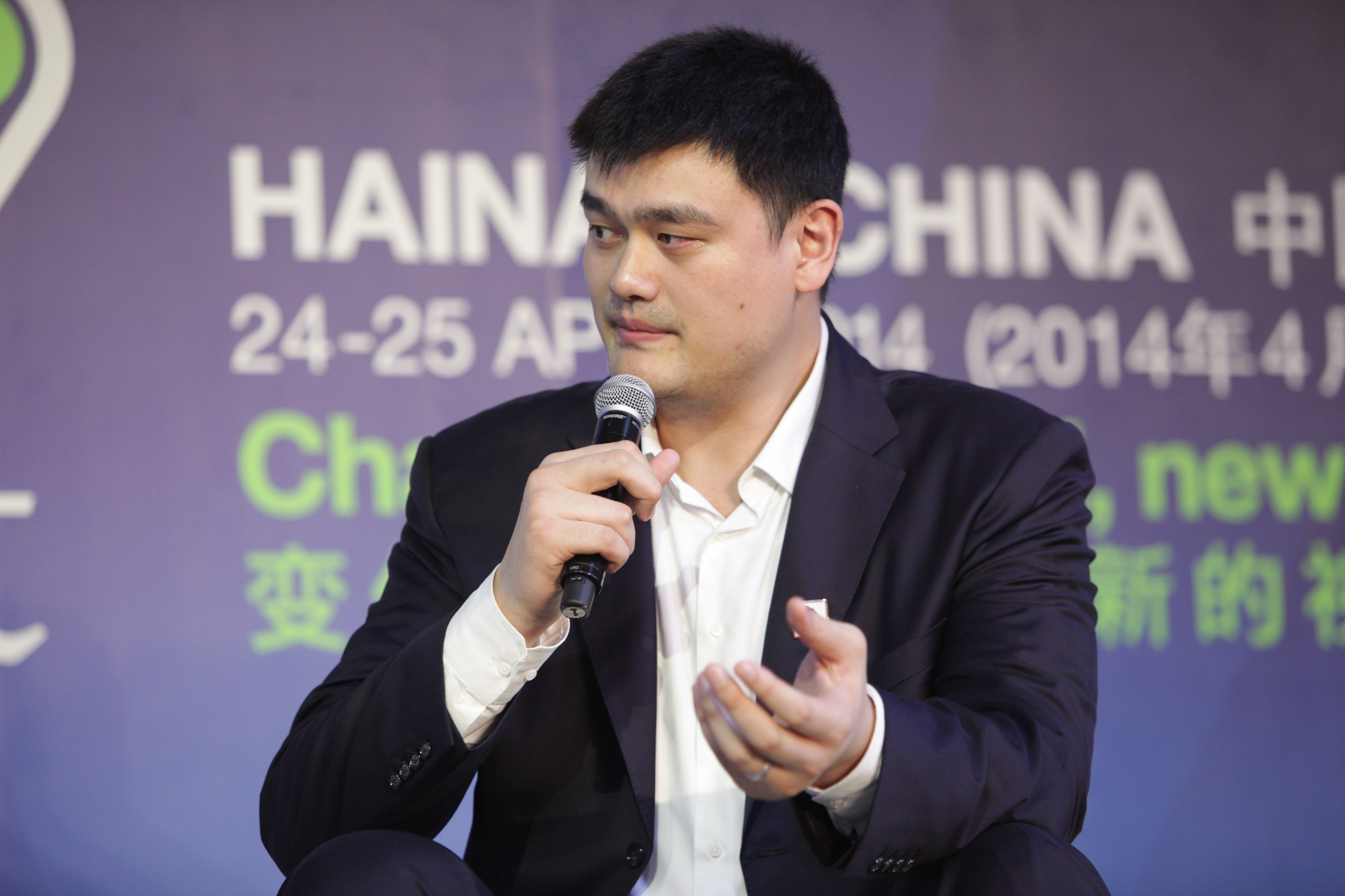 Yao Ming, Former NBA player, Founder, The Yao Foundation